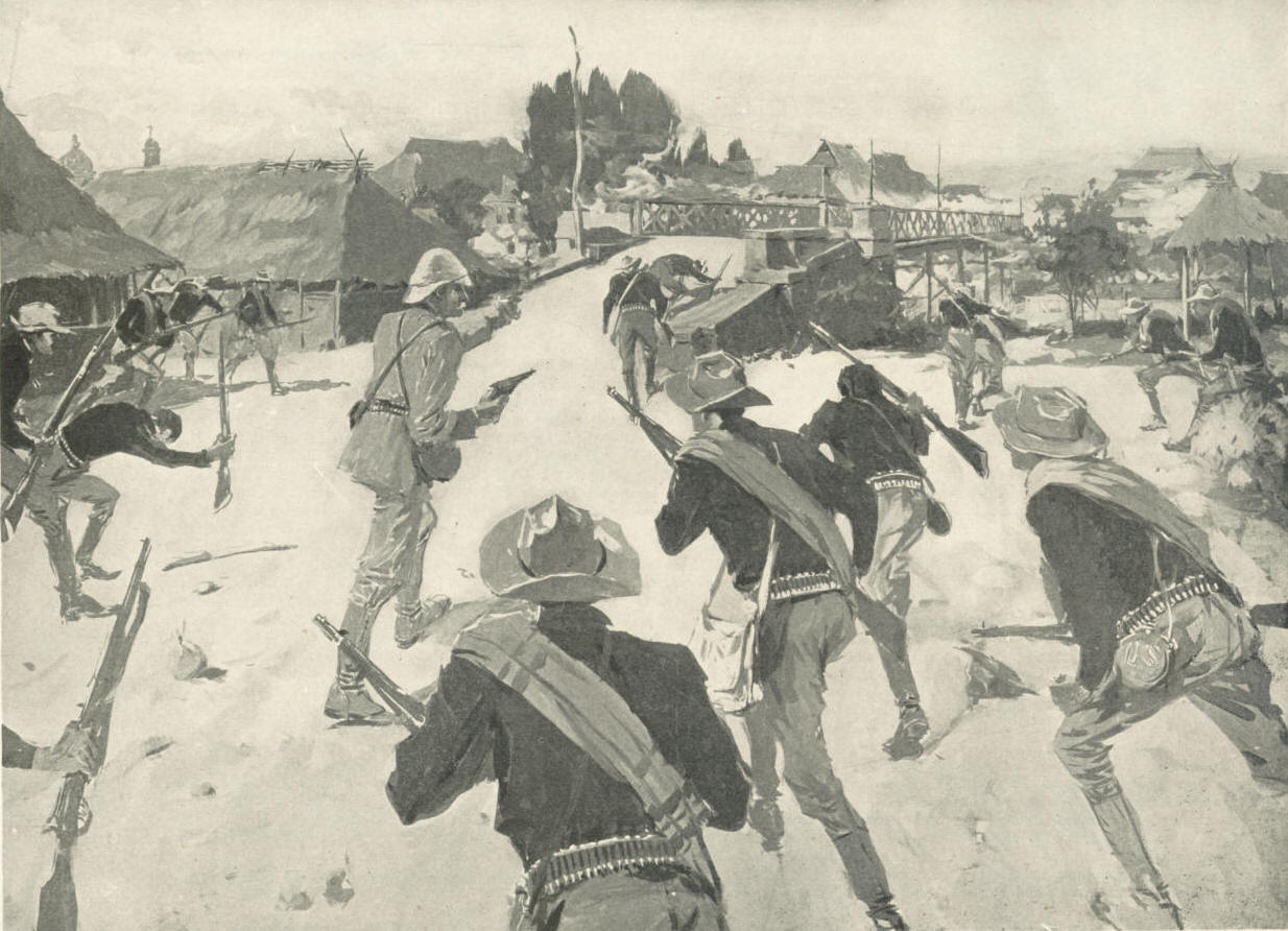 LeadingtheTroops-SantaCruz-0